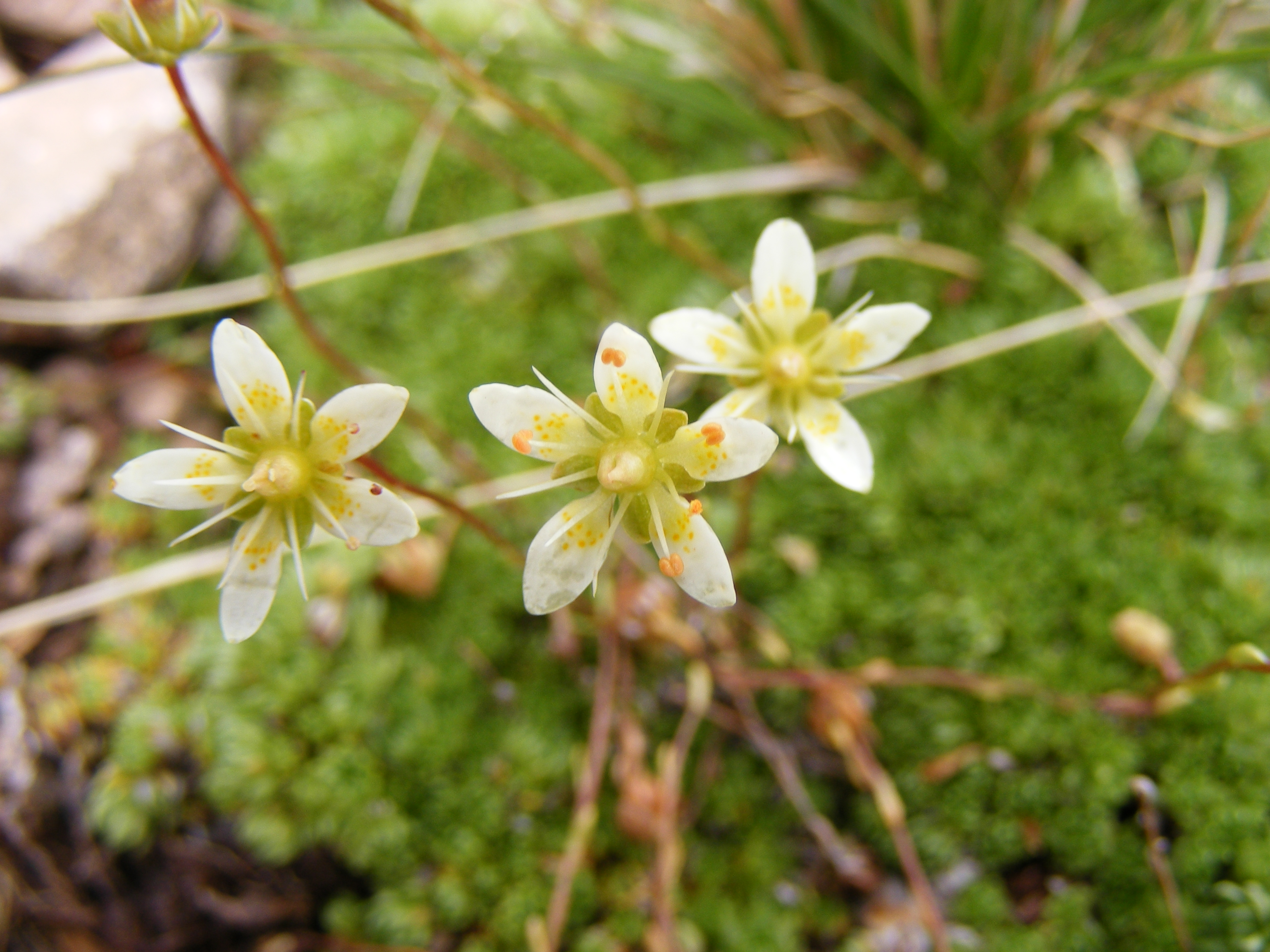 This photo shows Saxifraga bryoides